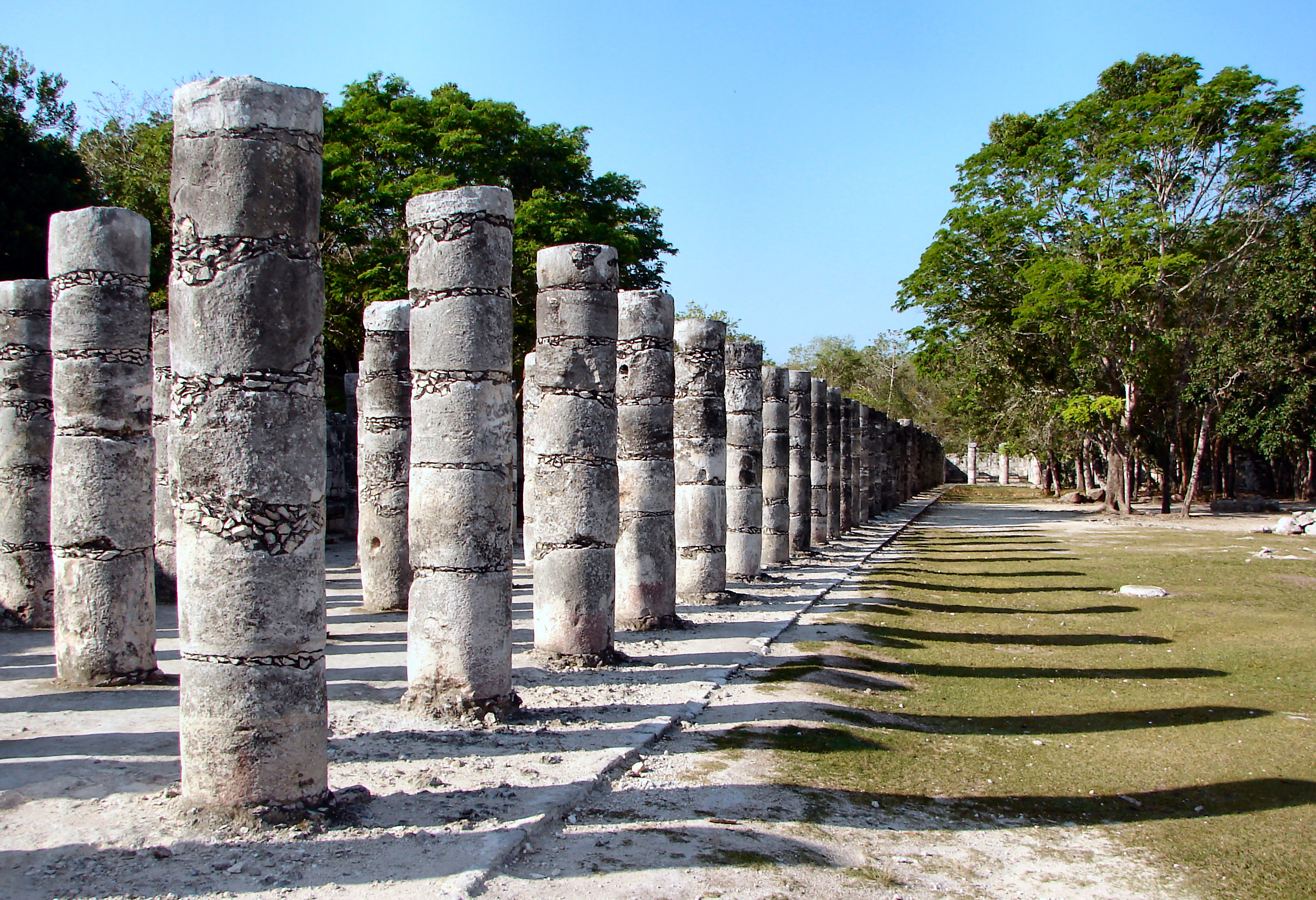 Group of a Thousand Columns at the Chichen Itza World Heritage Site.